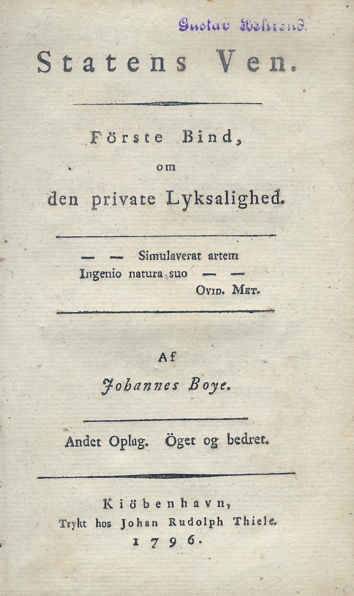 Title page of the second edition of the first volume of Johannes Boyes' "Statens Ven" (Friend of the State).